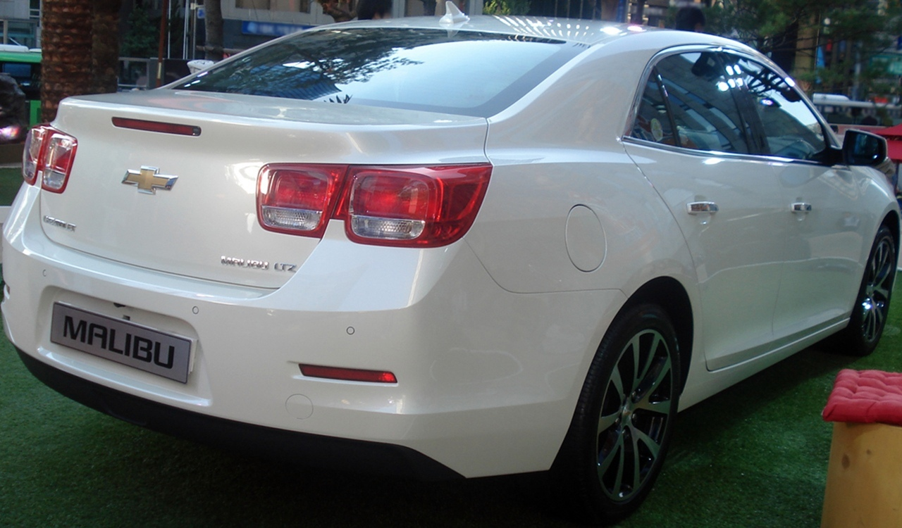 Chevrolet Malibu